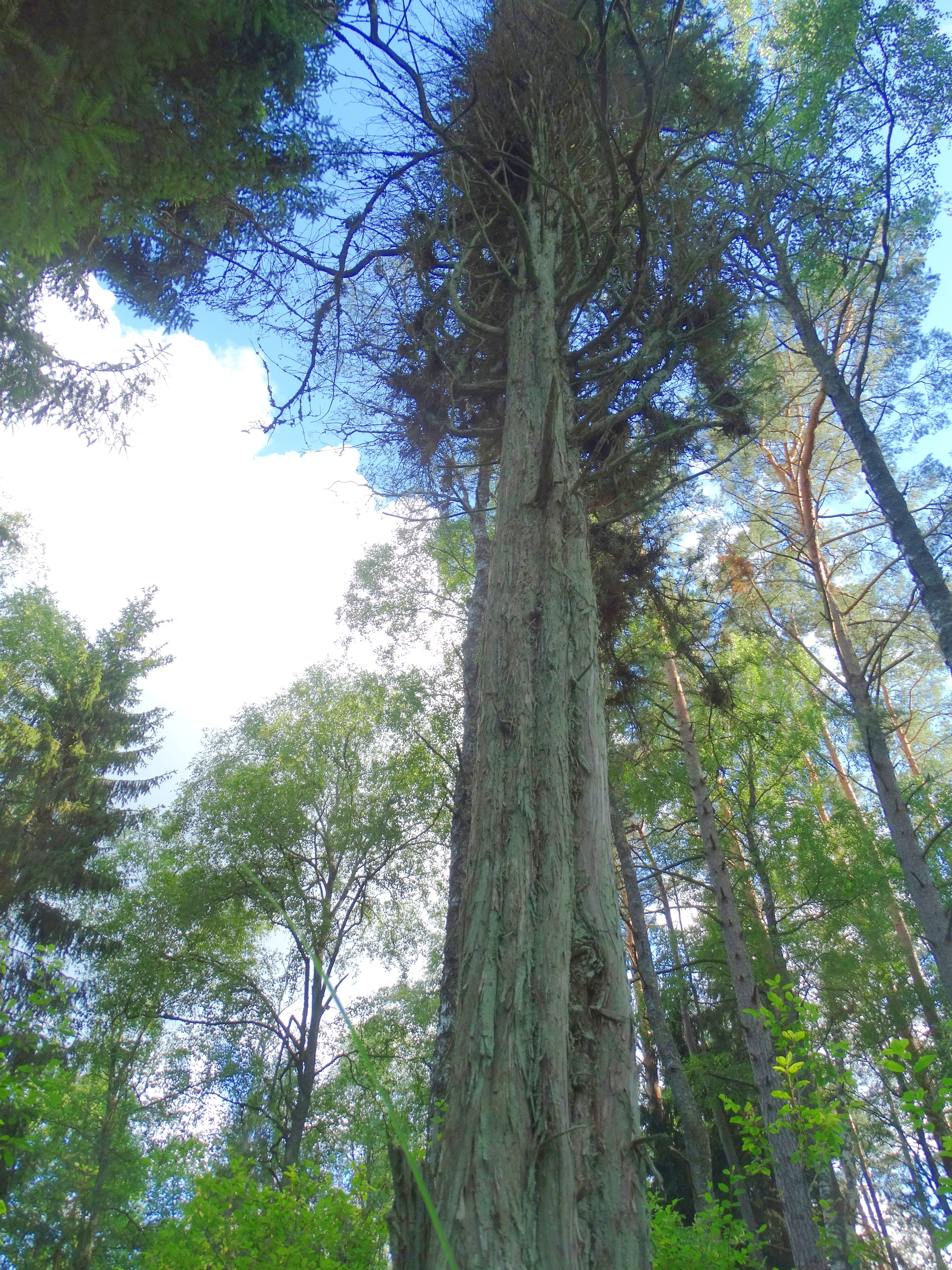 Common juniper by Gaigalinis Lake, Švenčionys District, Lithuania